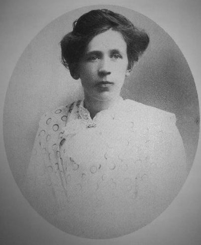 Swedish writer Anna Myrberg (1878-1931)